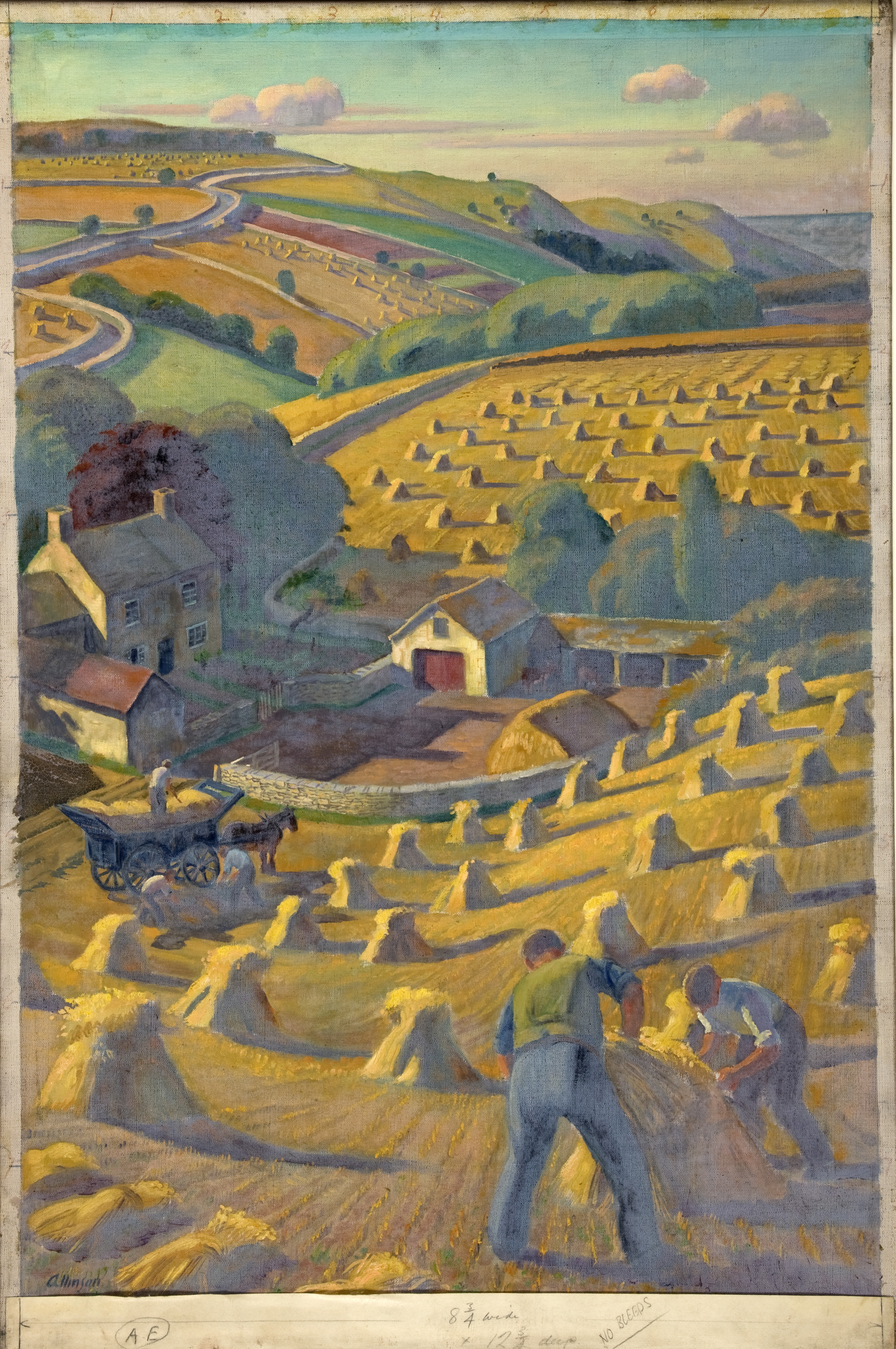 Men build haystacks amid a pastoral landscape.